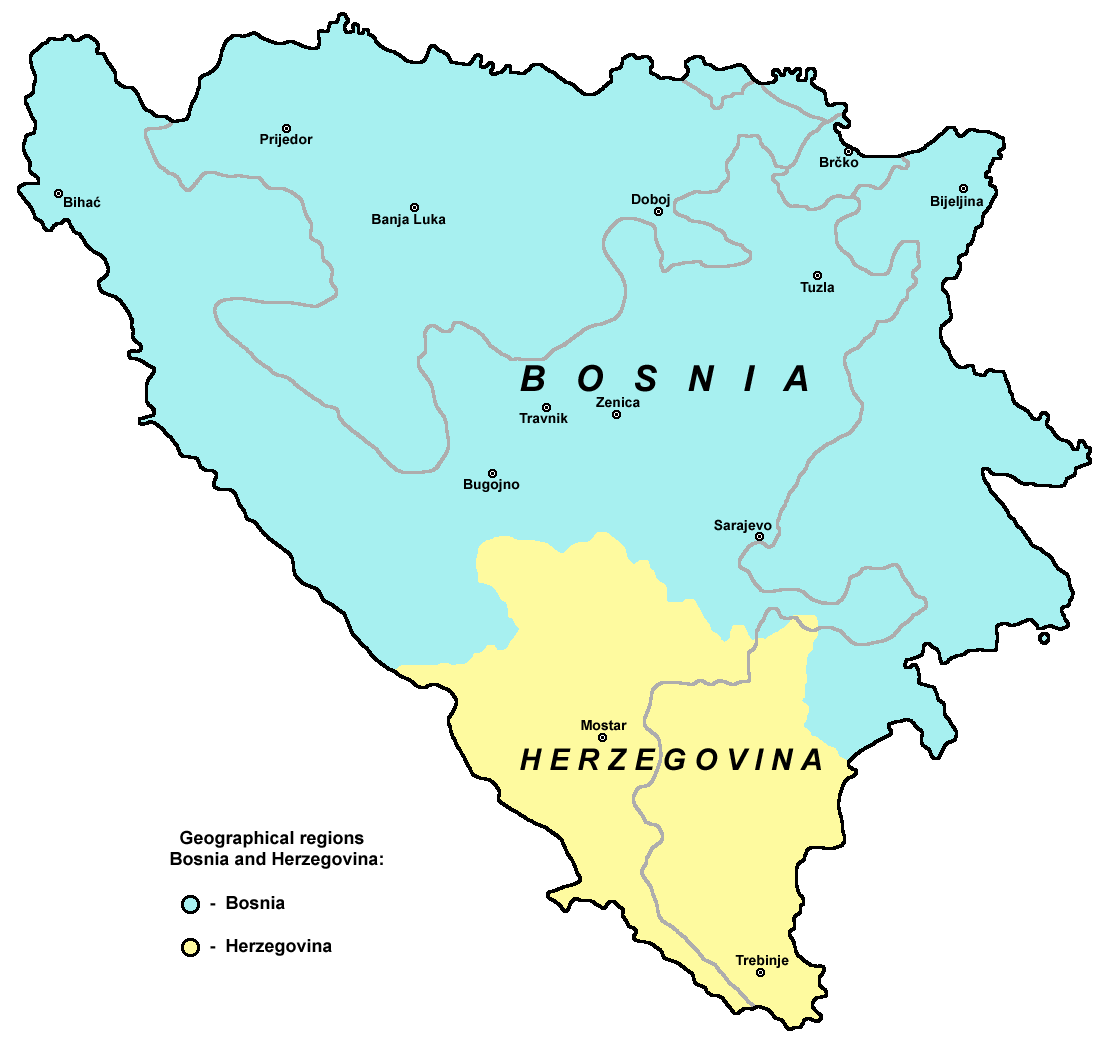 Geographical regions Bosnia and Herzegovina.